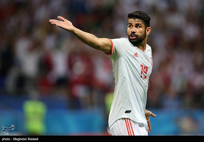 Iran and Spain match at the FIFA World Cup 2018 in Russia.